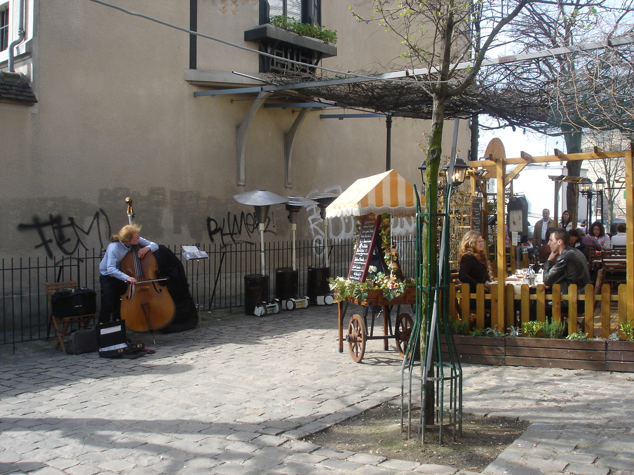 An artist playing a large violin at montmartre